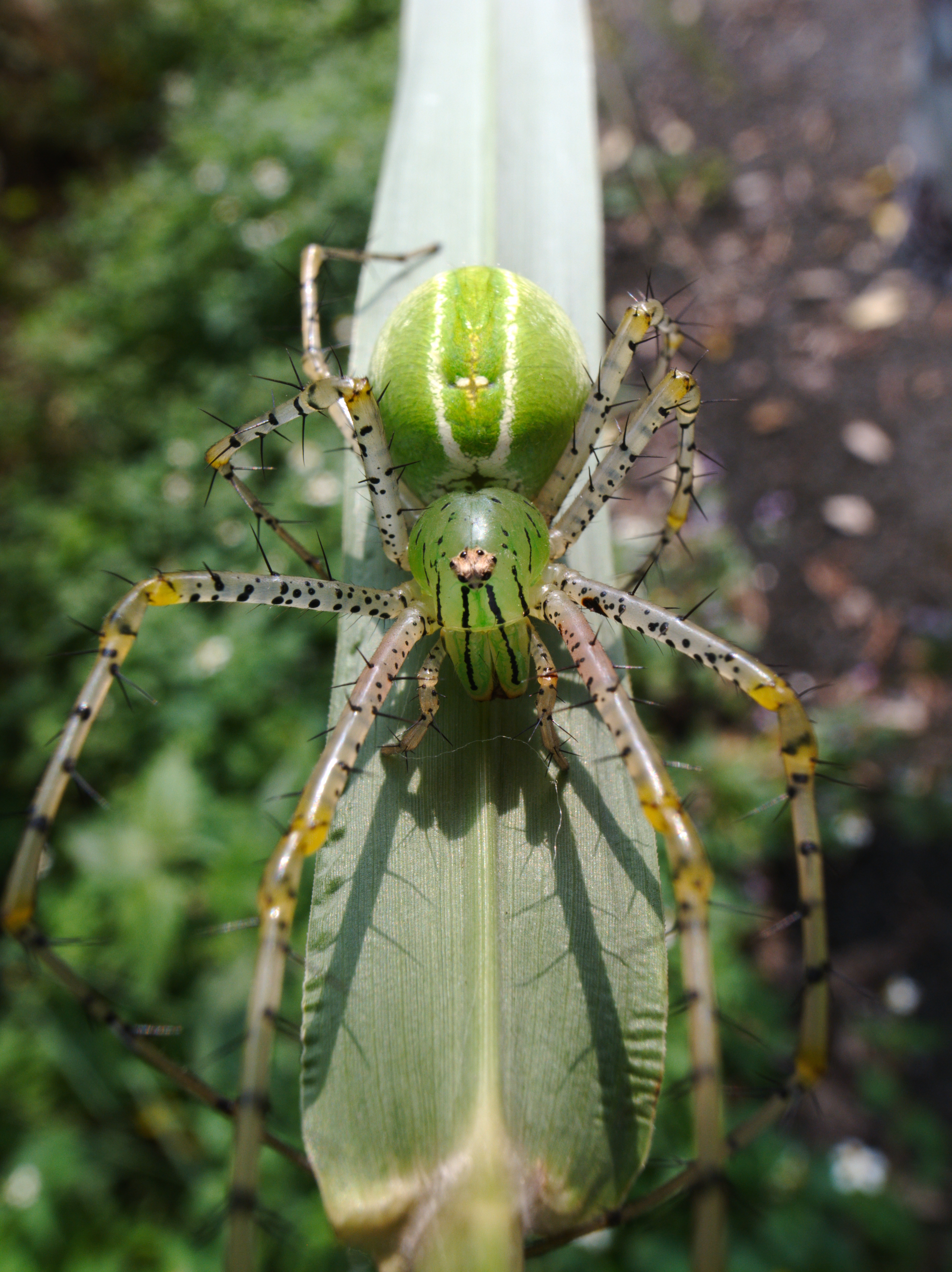 Adult female Peucetia formosensis.